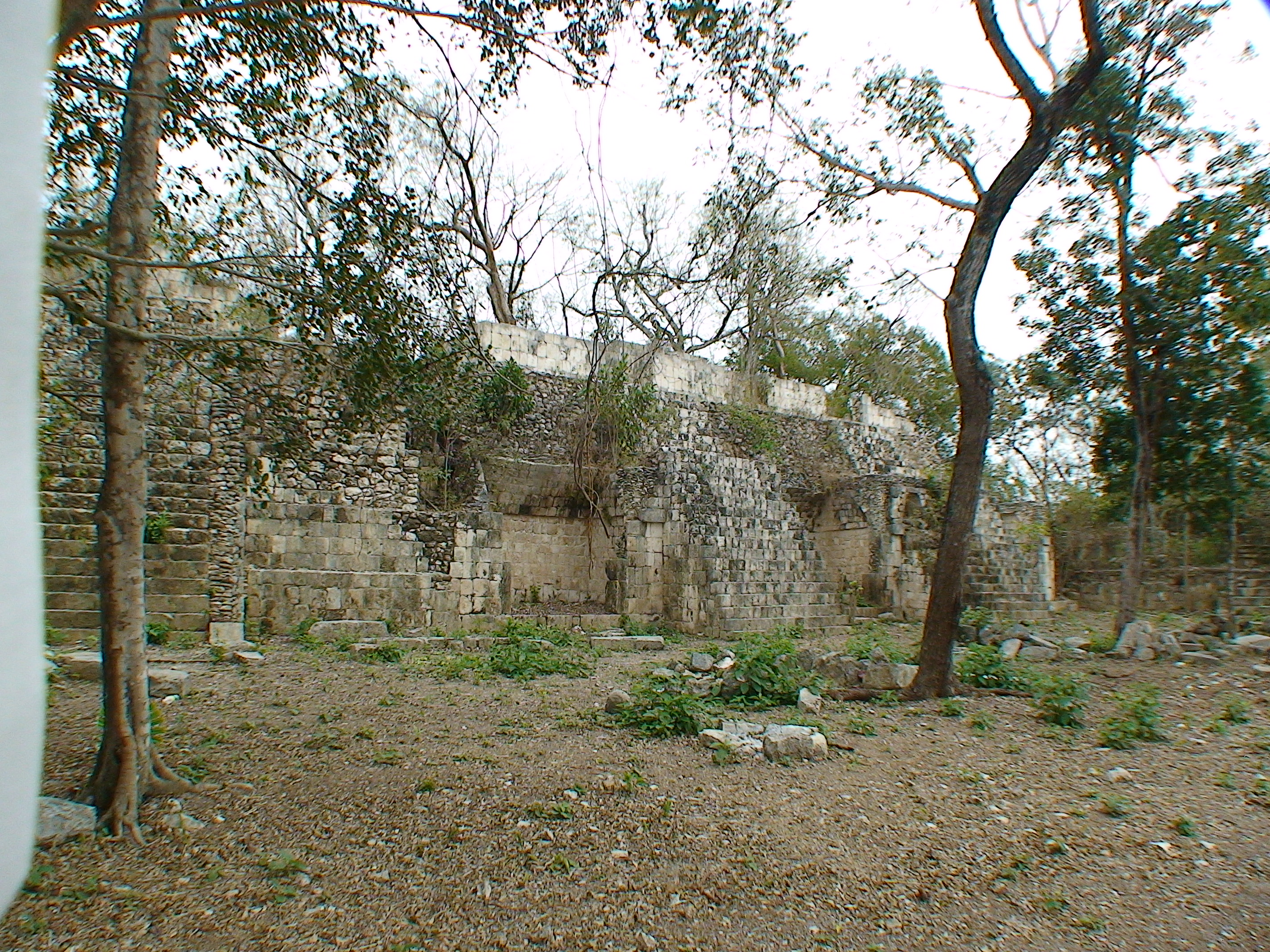 Cacanmul, Campeche, Mexico: front view of the main building